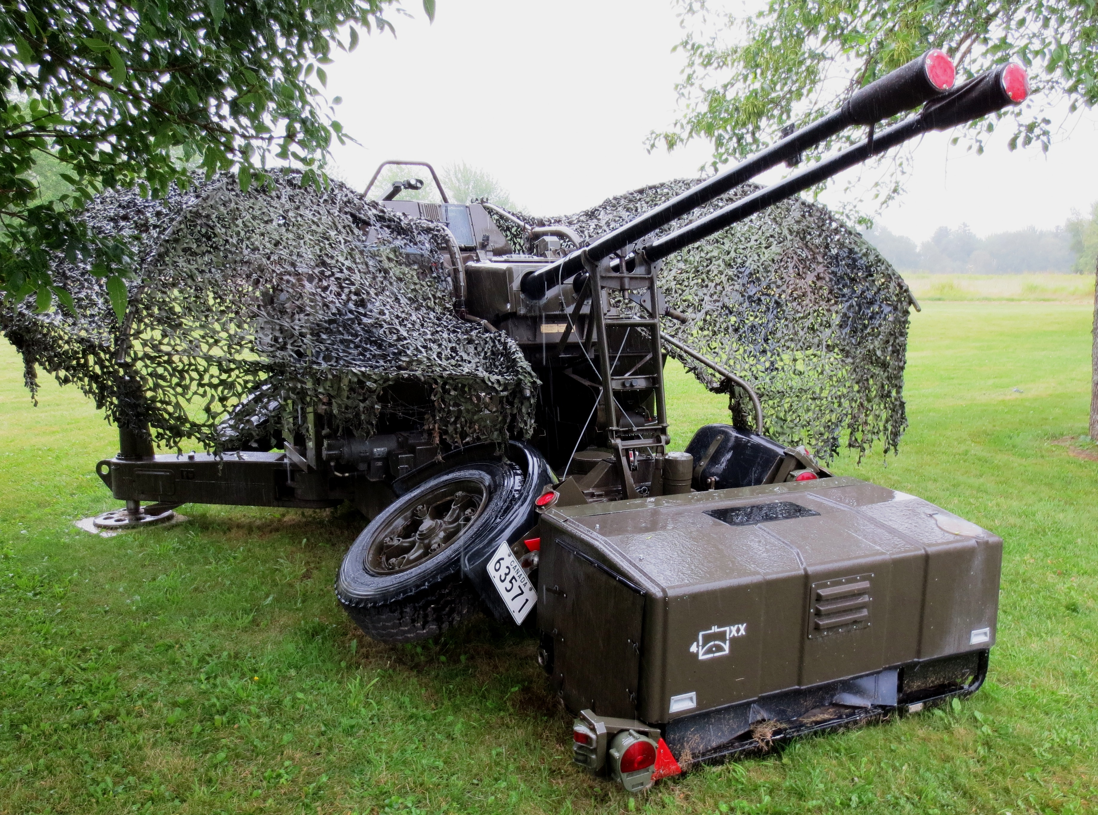 Oerlikon 35-mm Twin Gun, New Brunswick Military History Museum, CFB Gagetown, New Brunswick. The Oerlikon 35 mm twin cannon is a pair of towed anti-aircraft guns made by Oerlikon Contraves (renamed as Rheinmetall Air Defence AG following the merger with Rheinmetall in 2009). The system could be paired with the off-gun Skyguard fire control radar system. Canada had 20 GDF-005 units and 10 Skyguard FC radars which have been phased out.